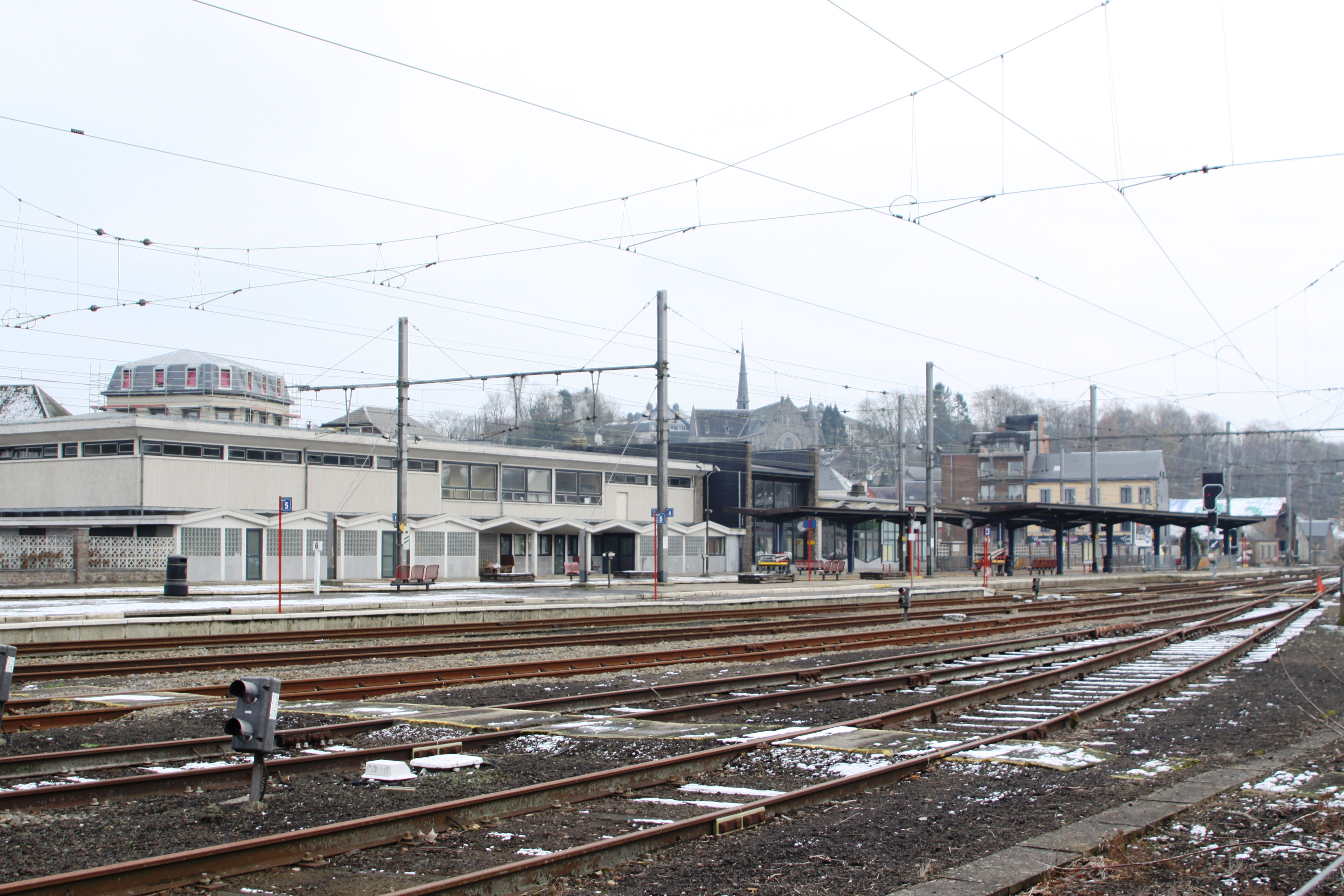 Train station Ciney 2010